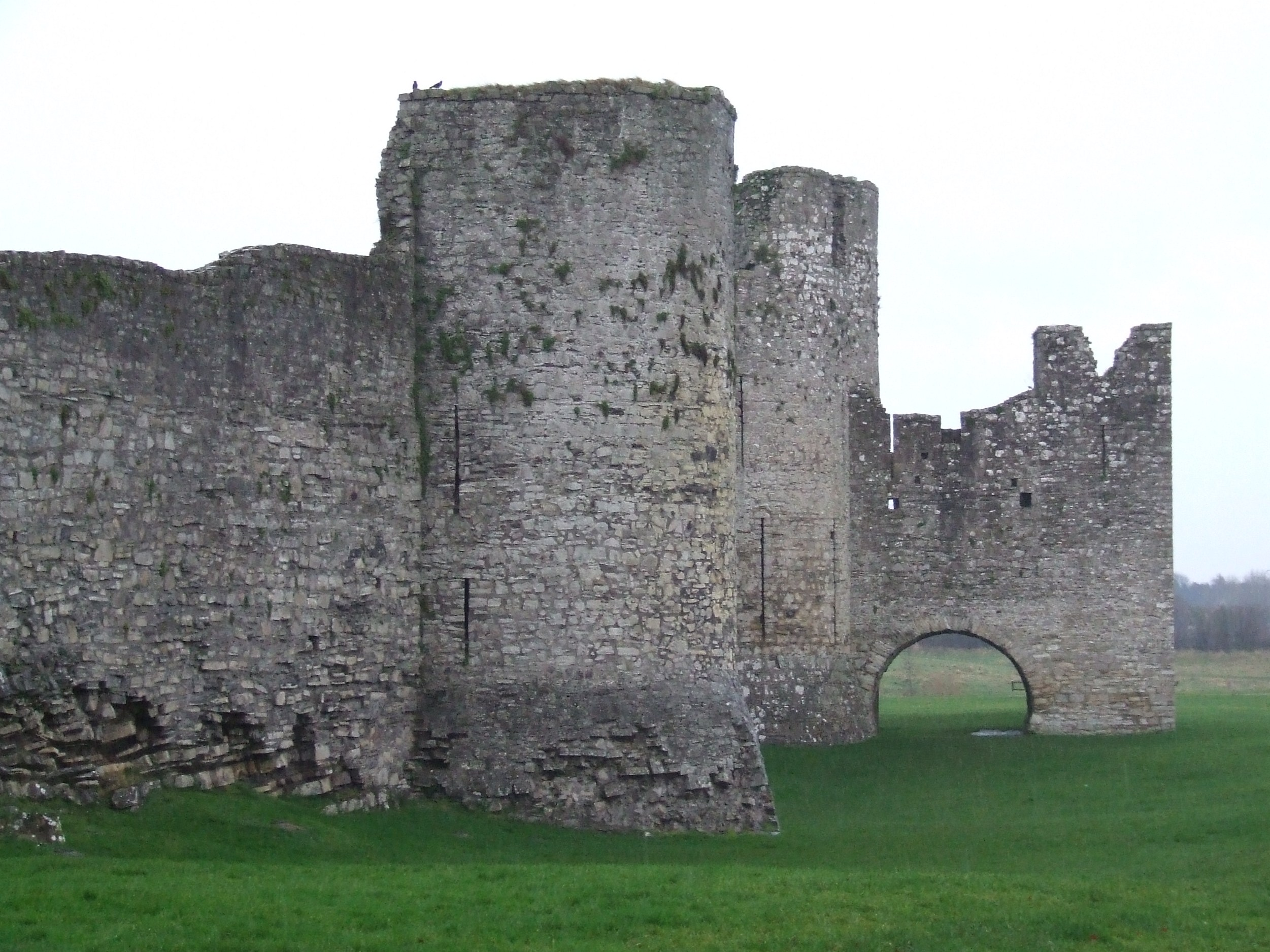 The barbican of Trim Castle at the southern curtain wall. January 2013. Photo aken from Trim Castle Hotel.